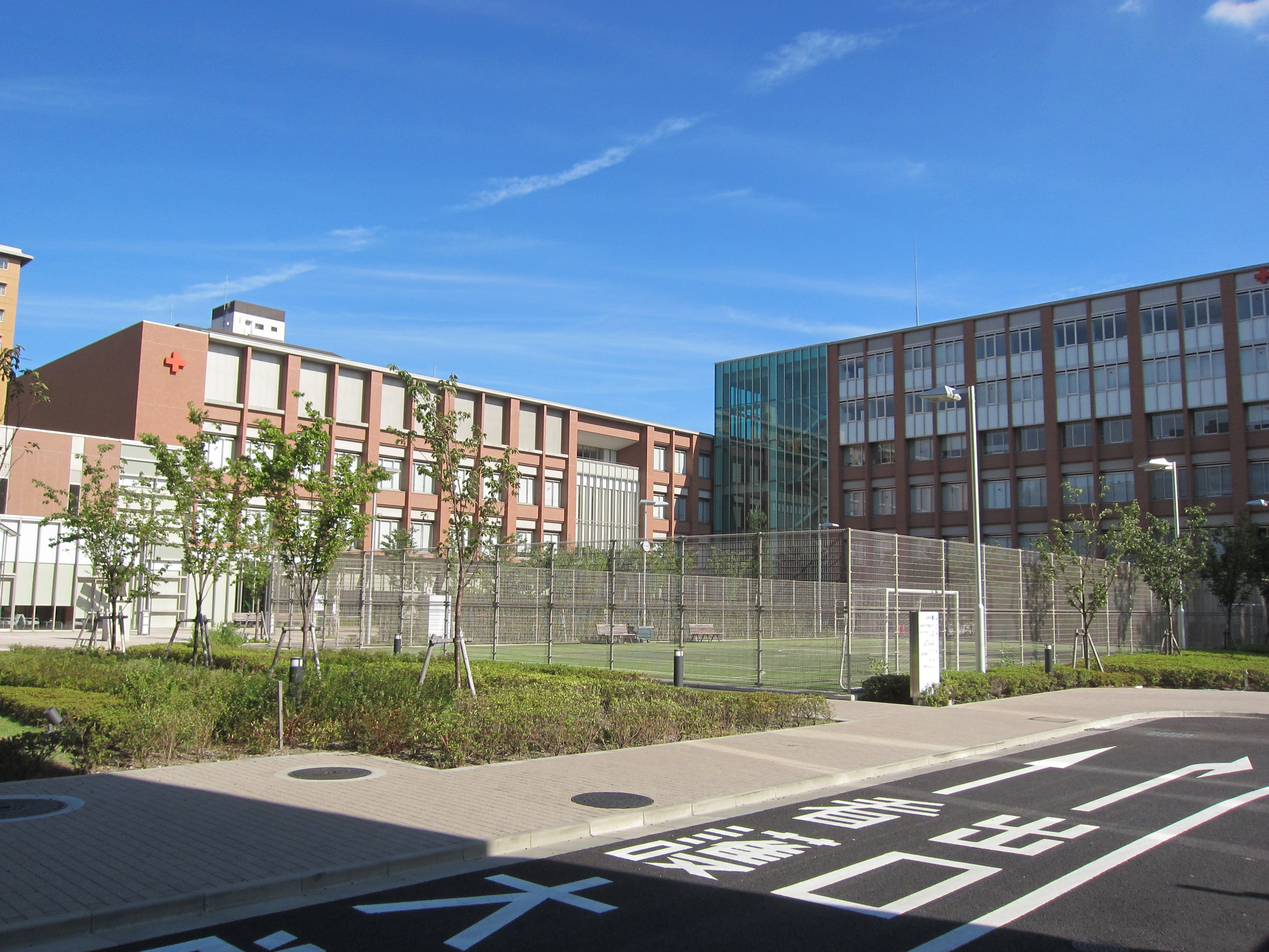 Japanese Red Cross College of Nursing